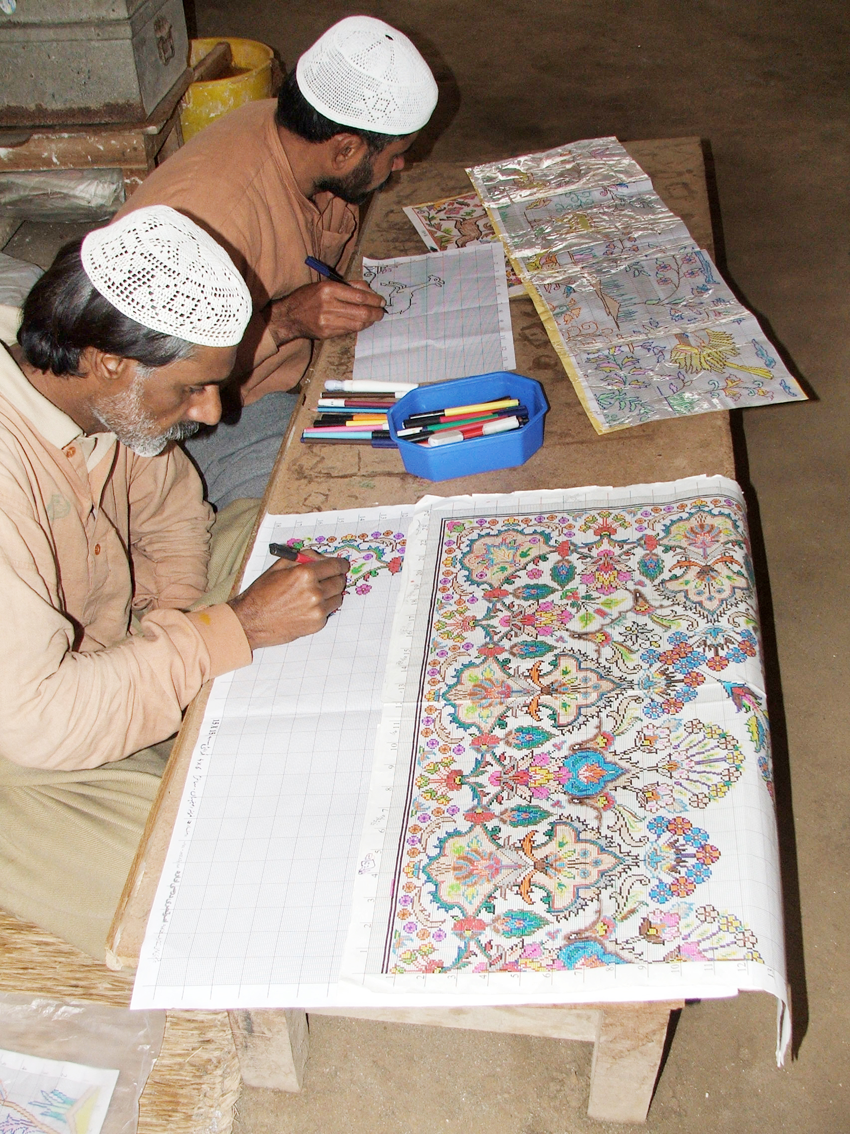 Two convict artists busy in drawing designs of carpets on graph papers at Industrial Workshops of Central Jail Faisalabad, Pakistan in 2010